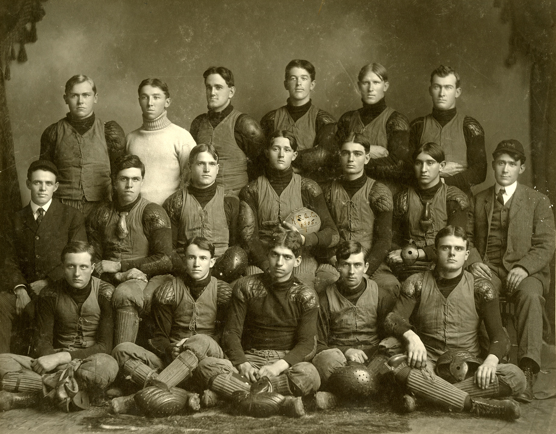 College football team for Kansas State Agricultural College in 1905.